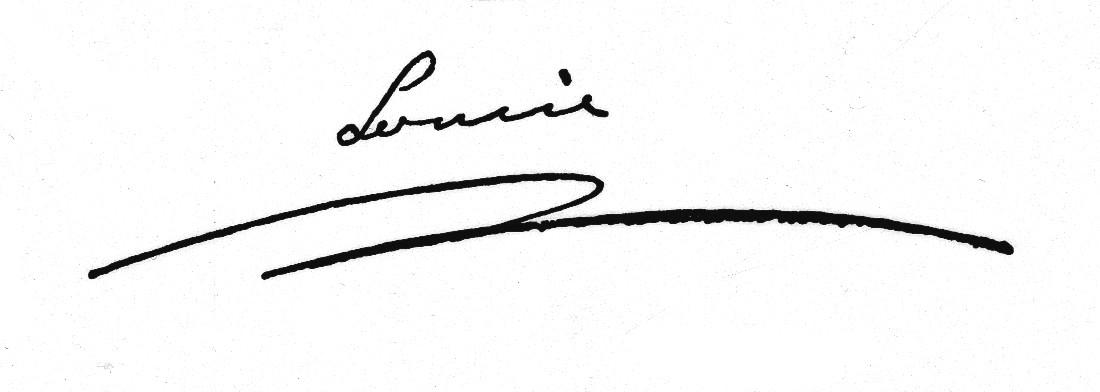 Signature of Luise von Mecklenburg-Strelitz (1776-1810), queen of Prussia.